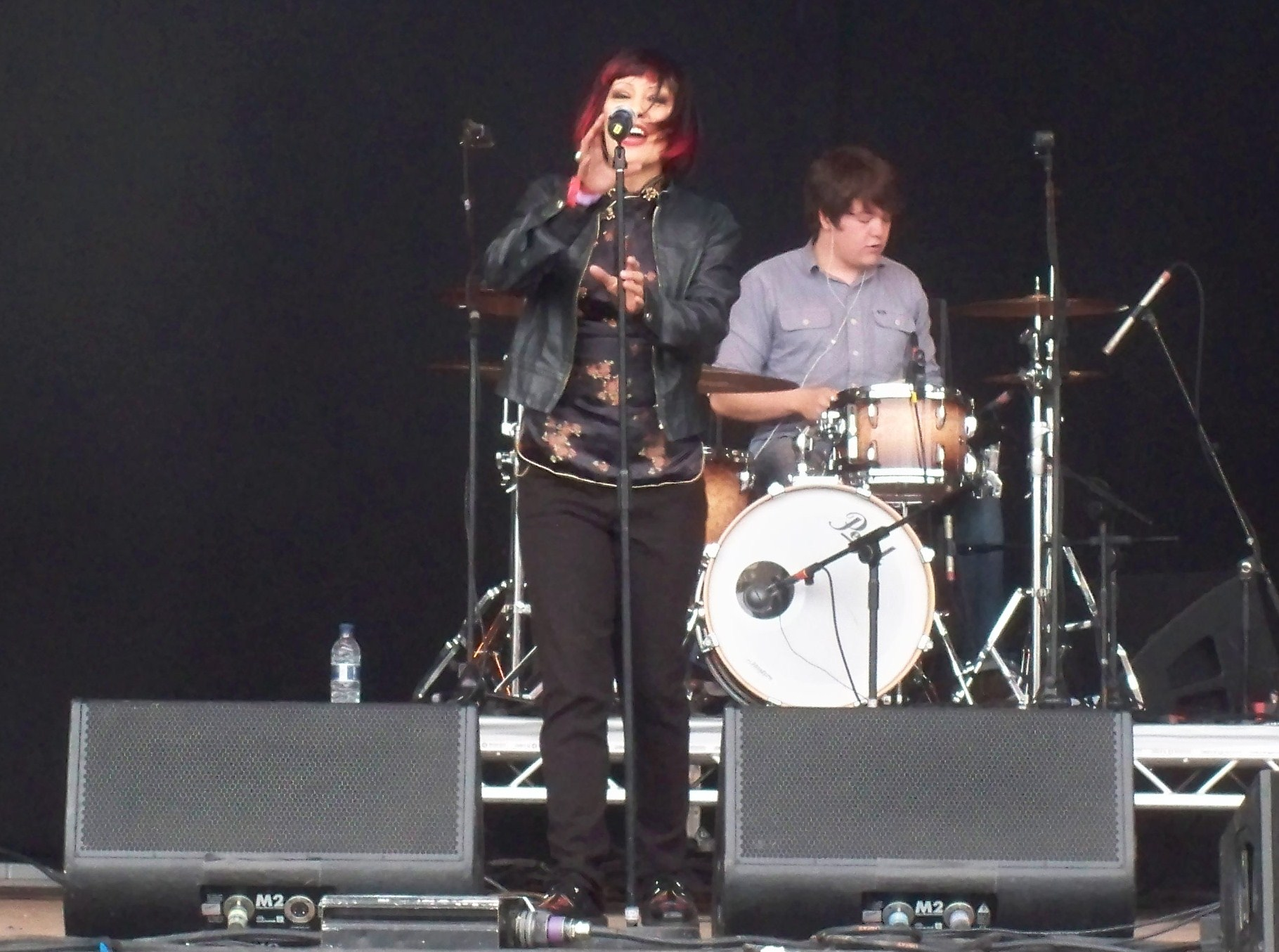 Republica exciting the crowd at Guilfest 2012.